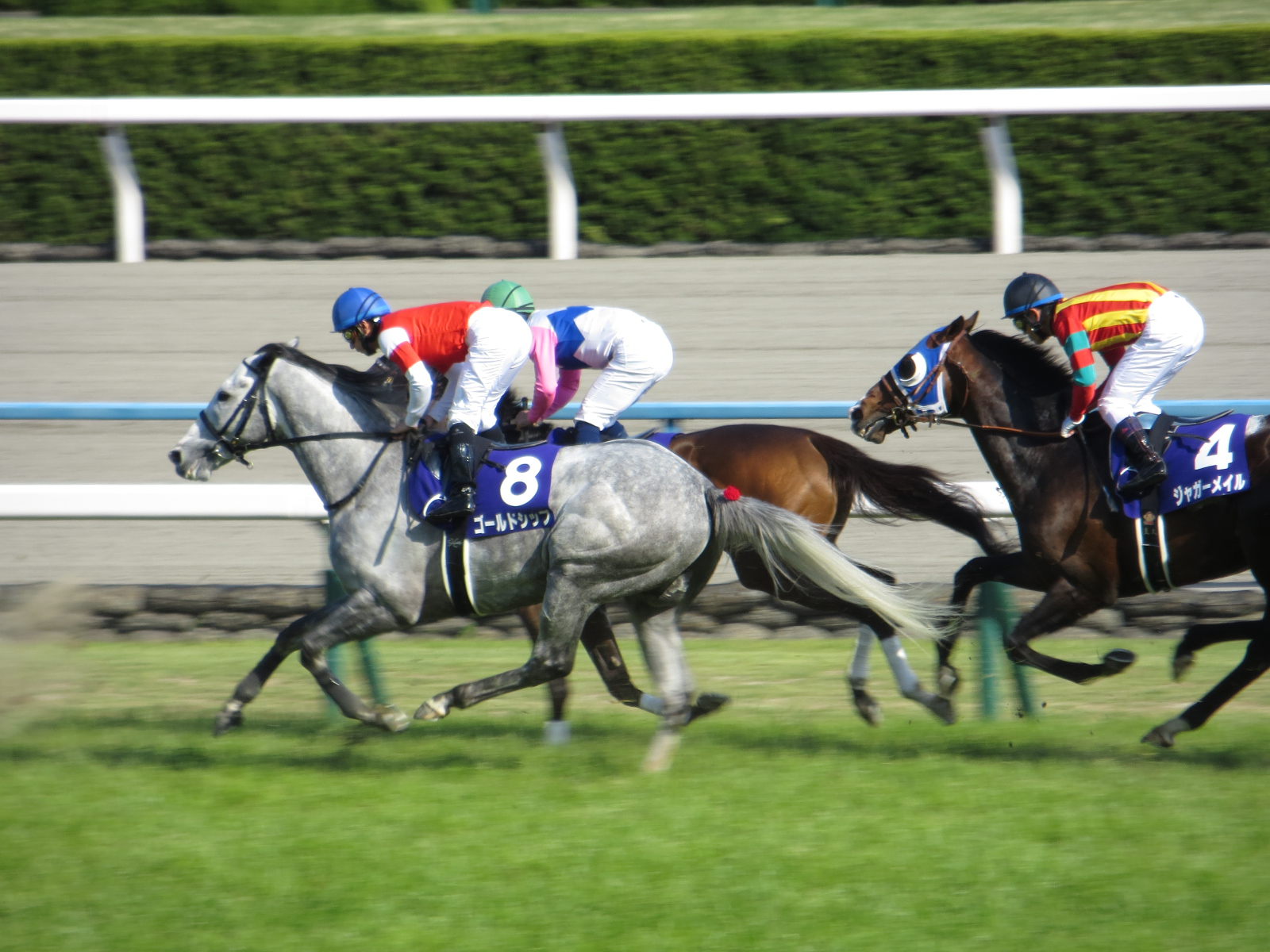 Gold Ship, Tokai Trick and Jaguar Mail from 147th Tenno Sho spring.